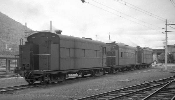 MaNu 35 train heating cars at Maibara Depot in Japan